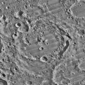 Maurolycus lunar crater - Lunar Orbiter 4 image